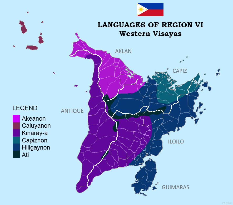 Language Map of the Western Visayas Region (Region VI), Philippines. Hiligaynon: Mapa sang mga nagakalain-lain nga mga lenguahe sa Bisayas Nakatundan (Rehiyon 6).